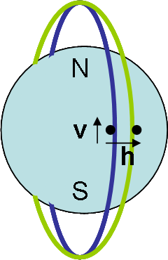 Complexica (author)